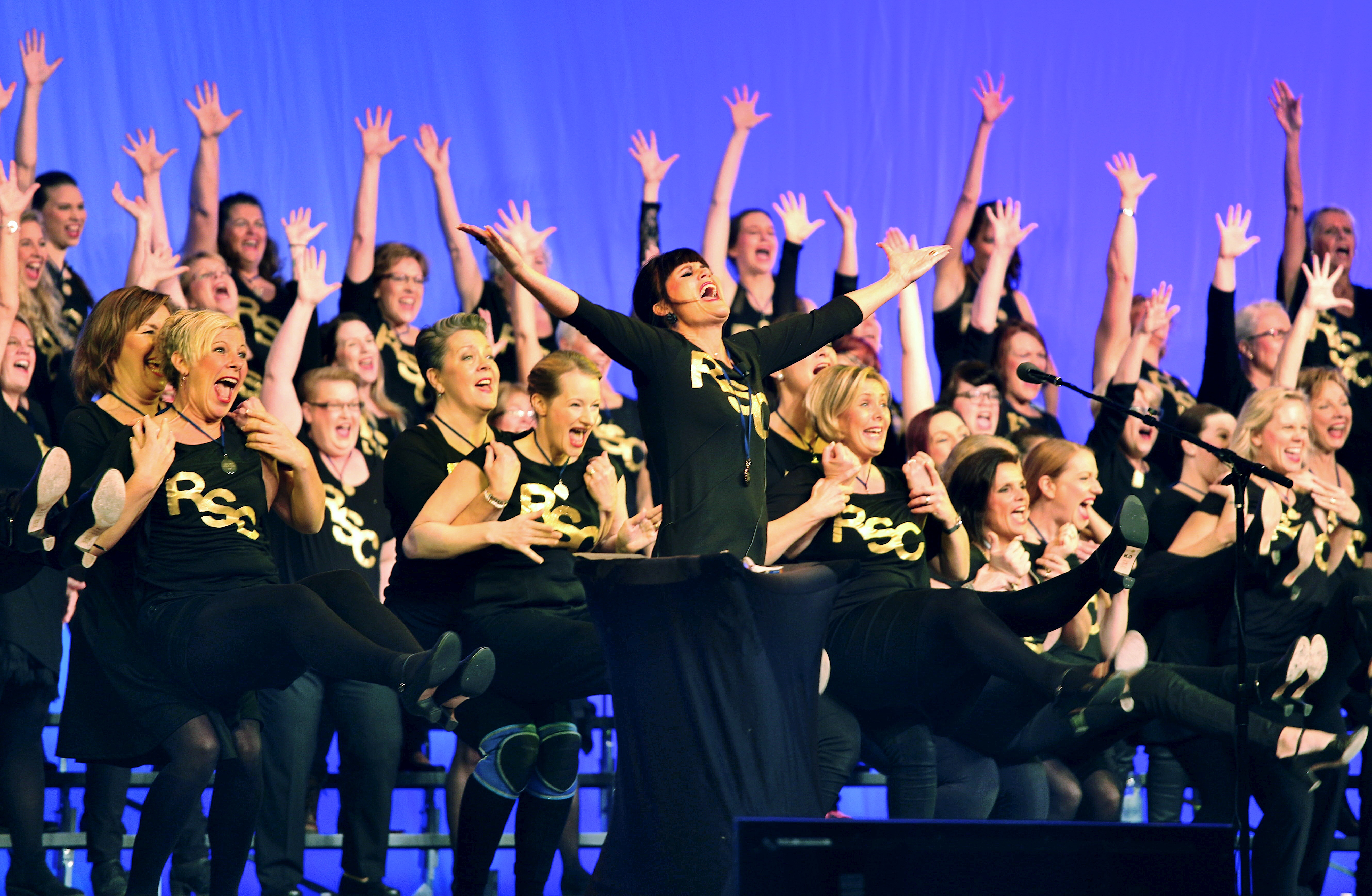 Reigning champions Ronninge Show Chorus performing at the Sweet Adelines International competition in Baltimore, Maryland